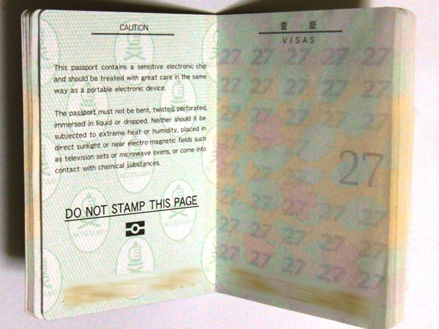 Japanese IC Passport chip page.